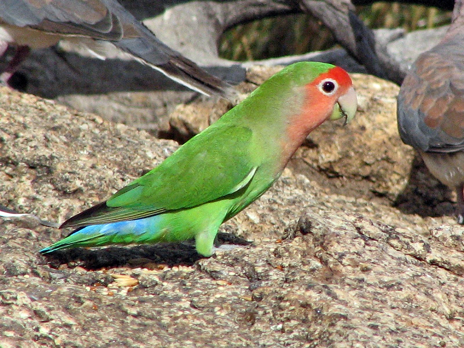 Peach-faced Lovebird in Namibia, Africa. Agapornis roseicollis